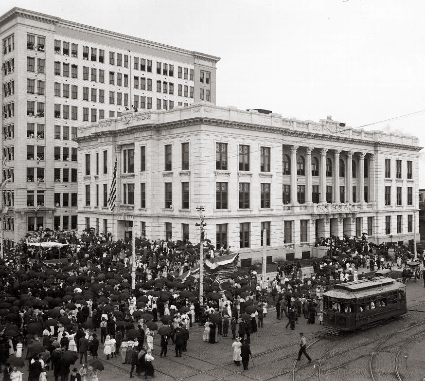 People watching a parade during the dedication ceremonies of the Grand Army of the Republic's Memorial Hall located in Topeka, Kansas. Landon State Office Building is in the background.